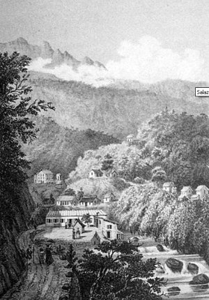 The way to Salazie's hotsprings and spa in the 19th century